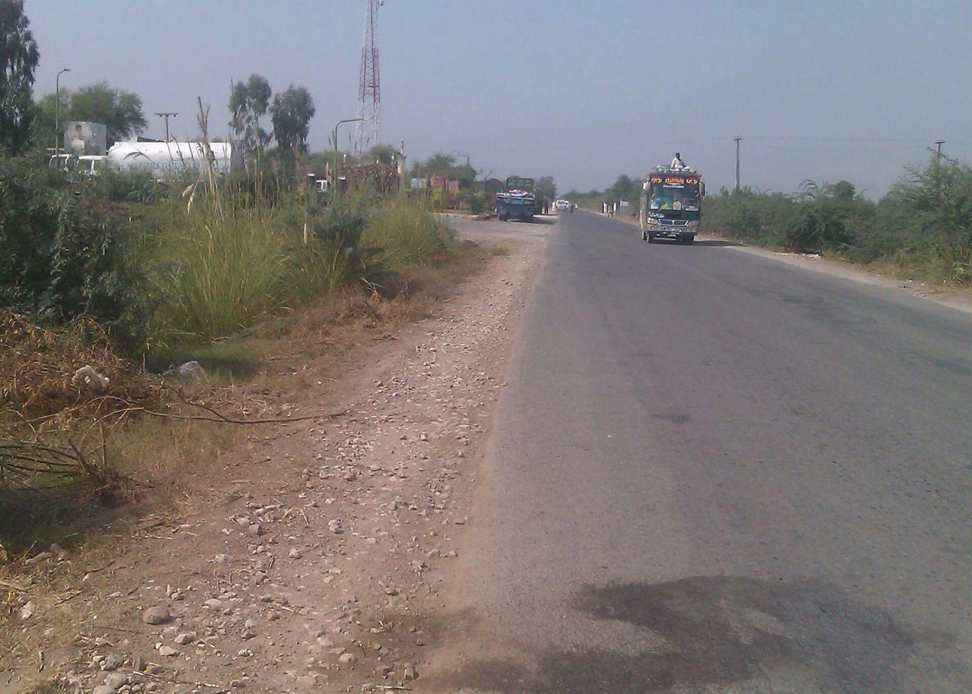 I also Uploaded this Photo on Botala Facebook Page & on website